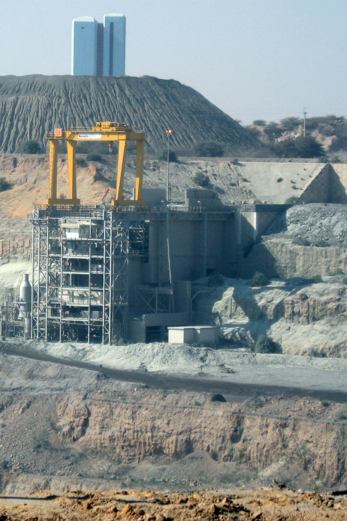 High-security administration building and transportation machinery below, Jwaneng Diamond Mine, Botswana.